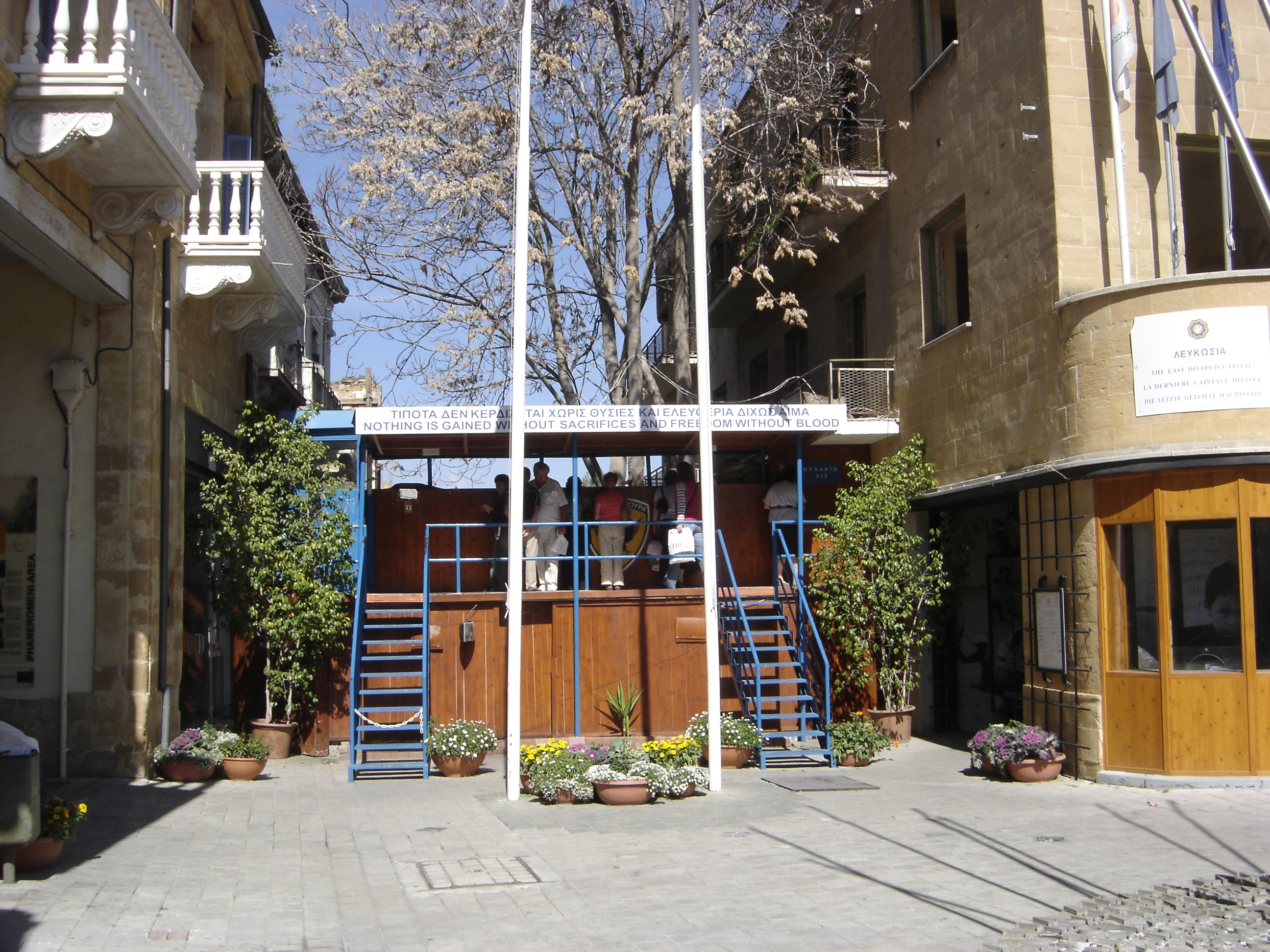 From this footbridge, one can see the no man's land of the Green Line, and beyond that the Turkish part of the city.